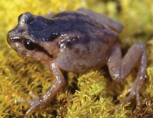 P. kauneorum (E, F holotype, MUSM 20459, female, SVL 29.1 mm)